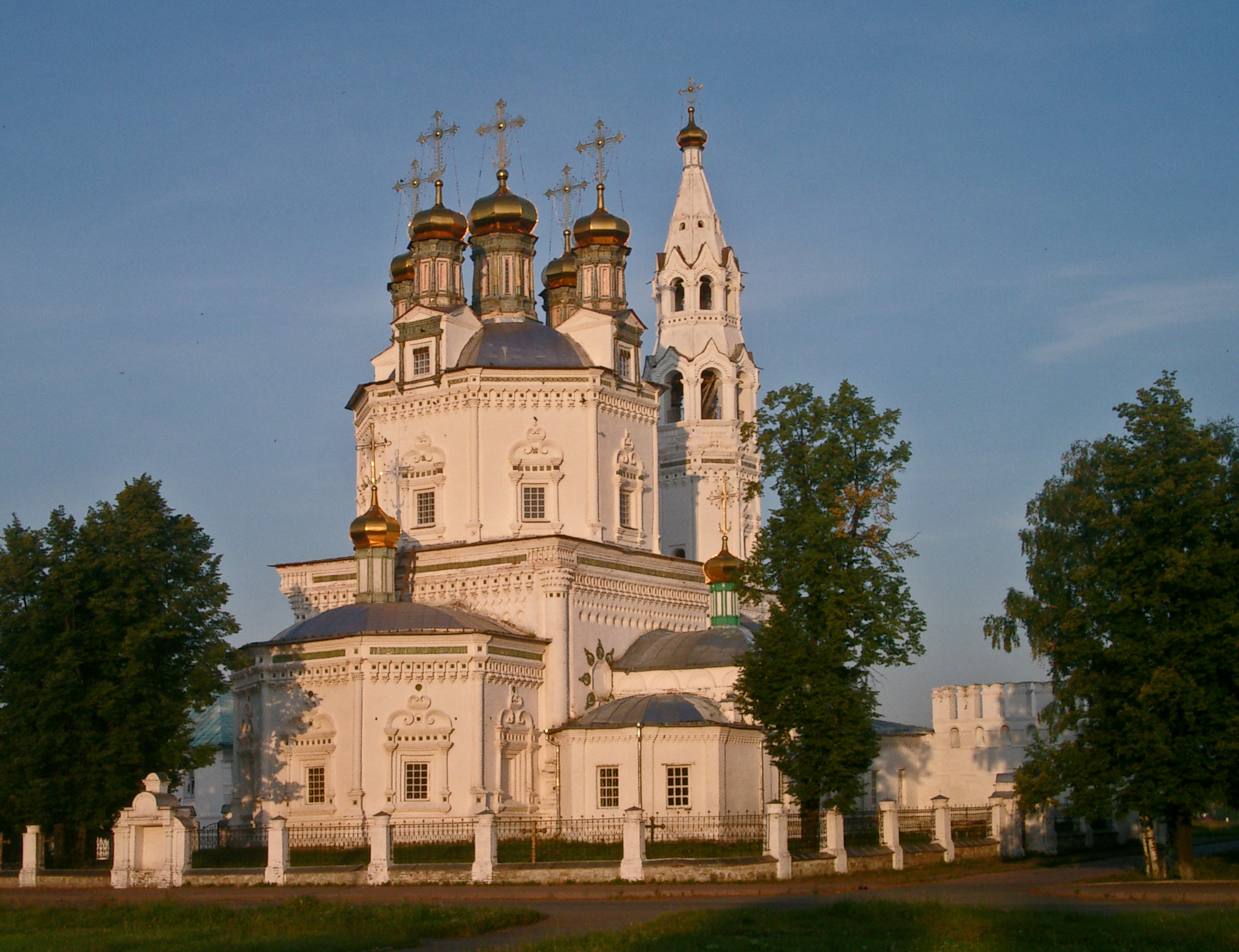 Trinity Cathedral, Verkhotur'e, Sverdlovsk Region, Russia